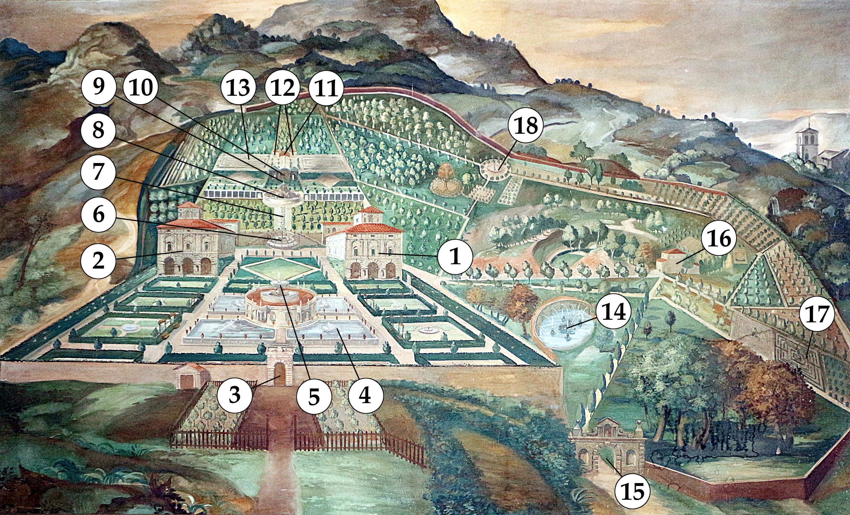 Veduta of Villa Lante in Villa La Petraia